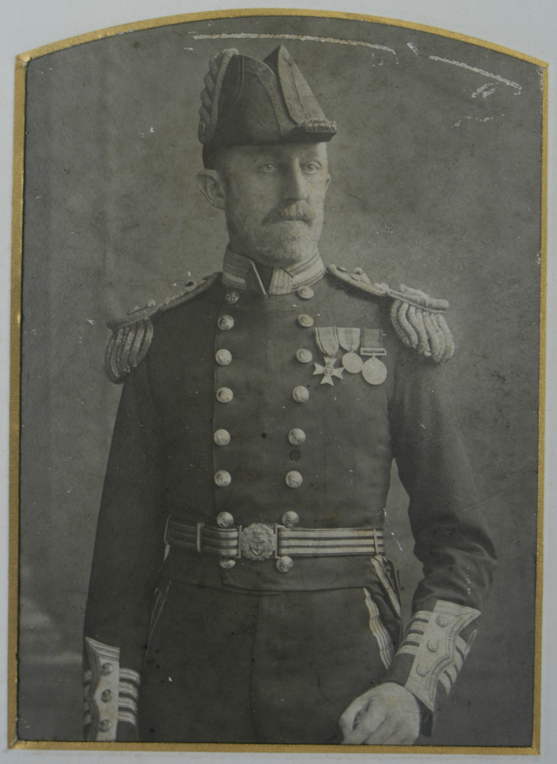 Photo (by me, R. de Salis, Rodolph (talk) 23:55, 17 August 2015 (UTC)) of a photo of Admiral Sir William de Salis as a Captain, circa 1904.